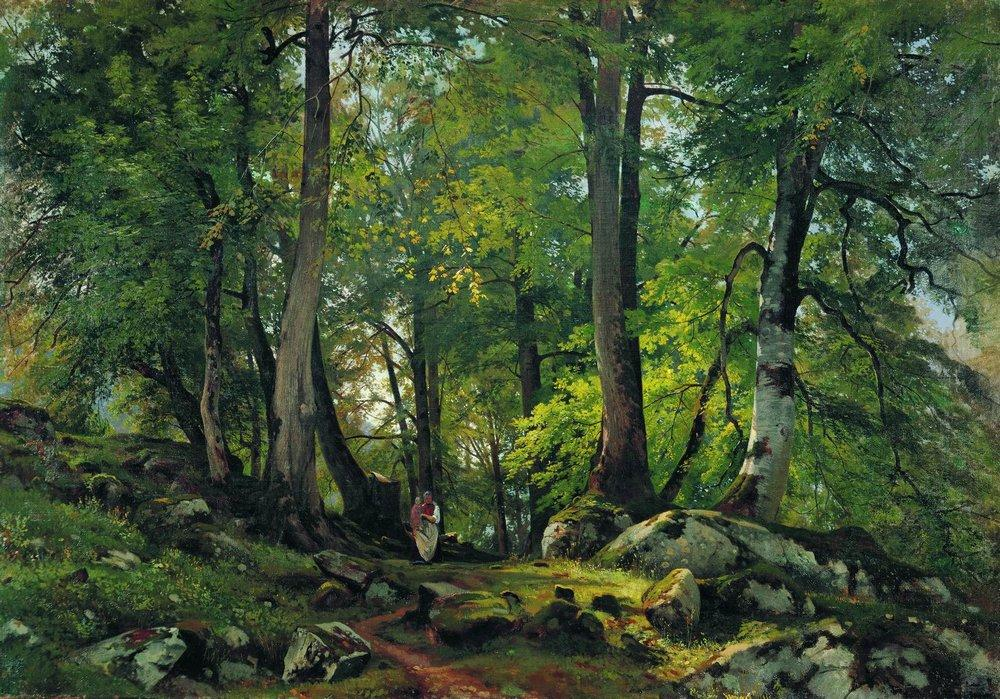 Beech forest in Switzerland